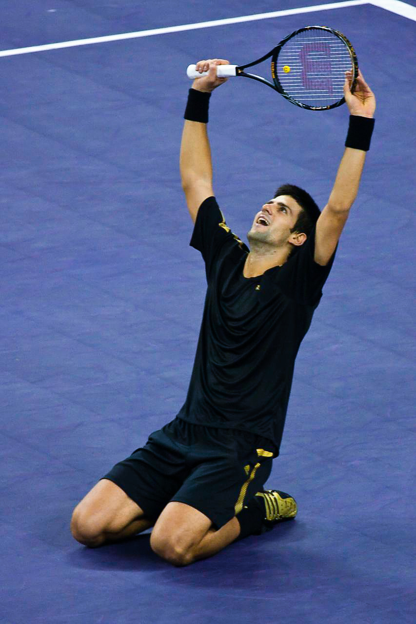 Novak Djokovic during the 2008 Tennis Masters Cup final against Nikolay Davydenko